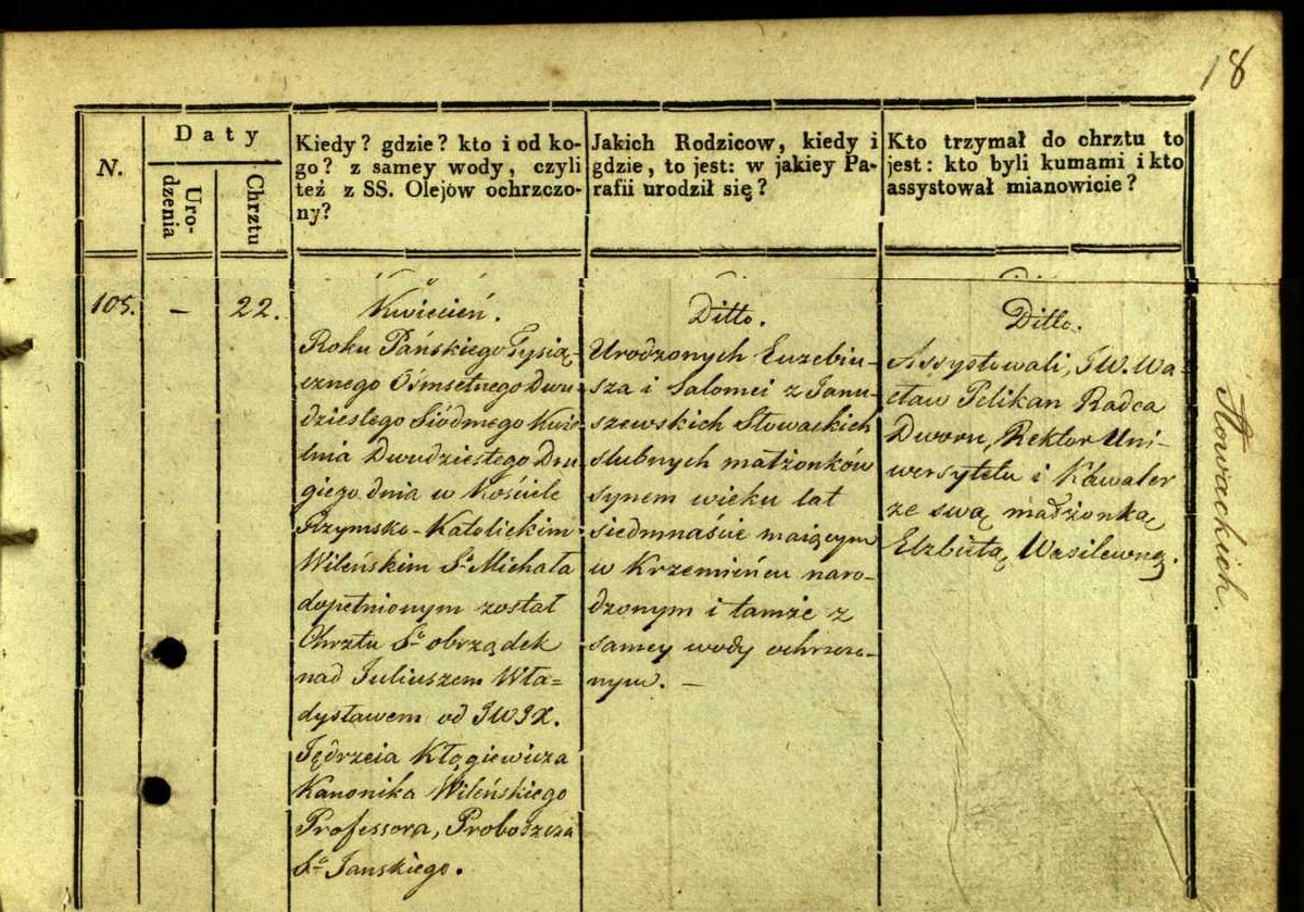 Juliusz Słowacki birth certificate